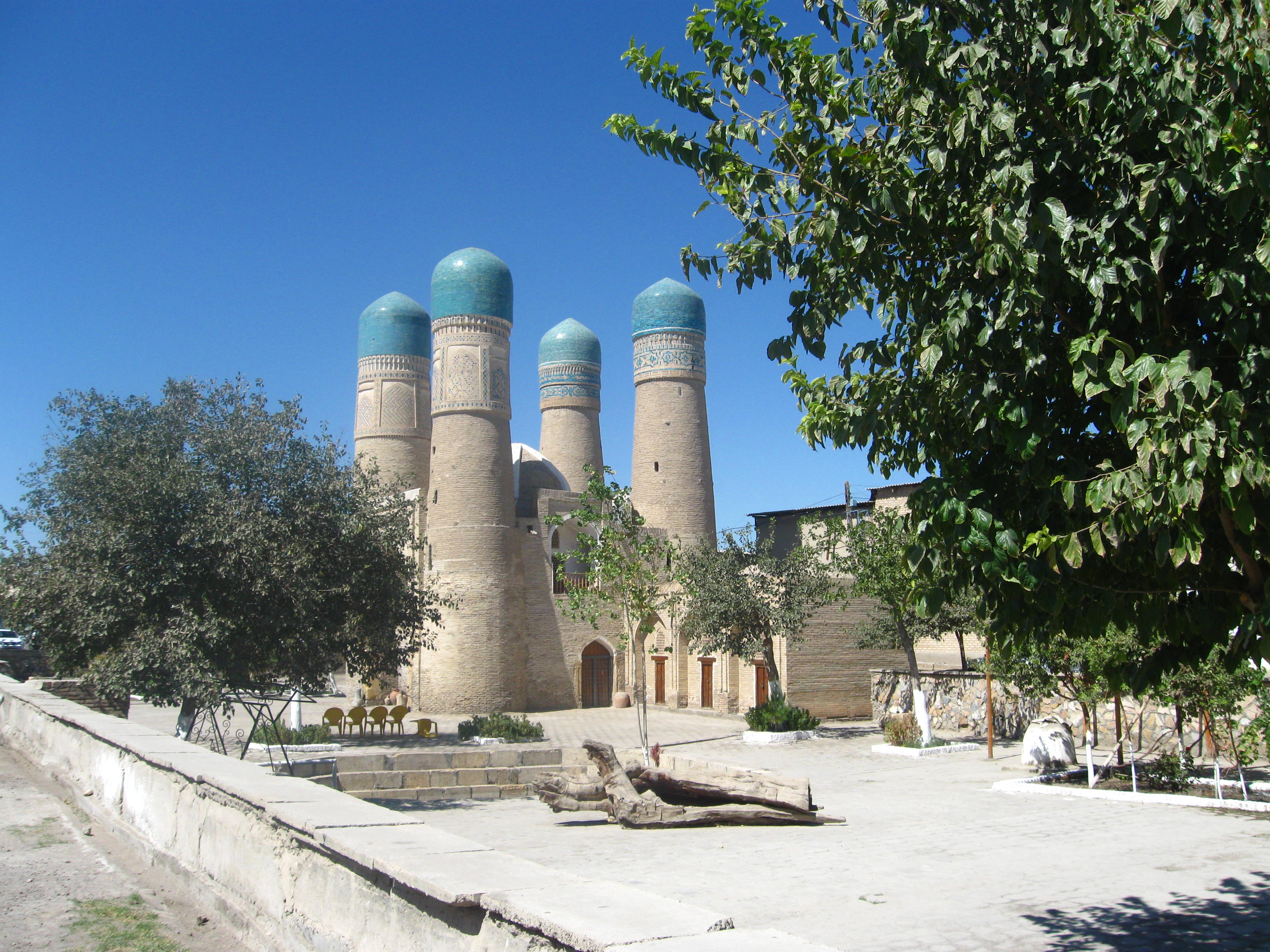 The Char Minor, Bukhara, 2011